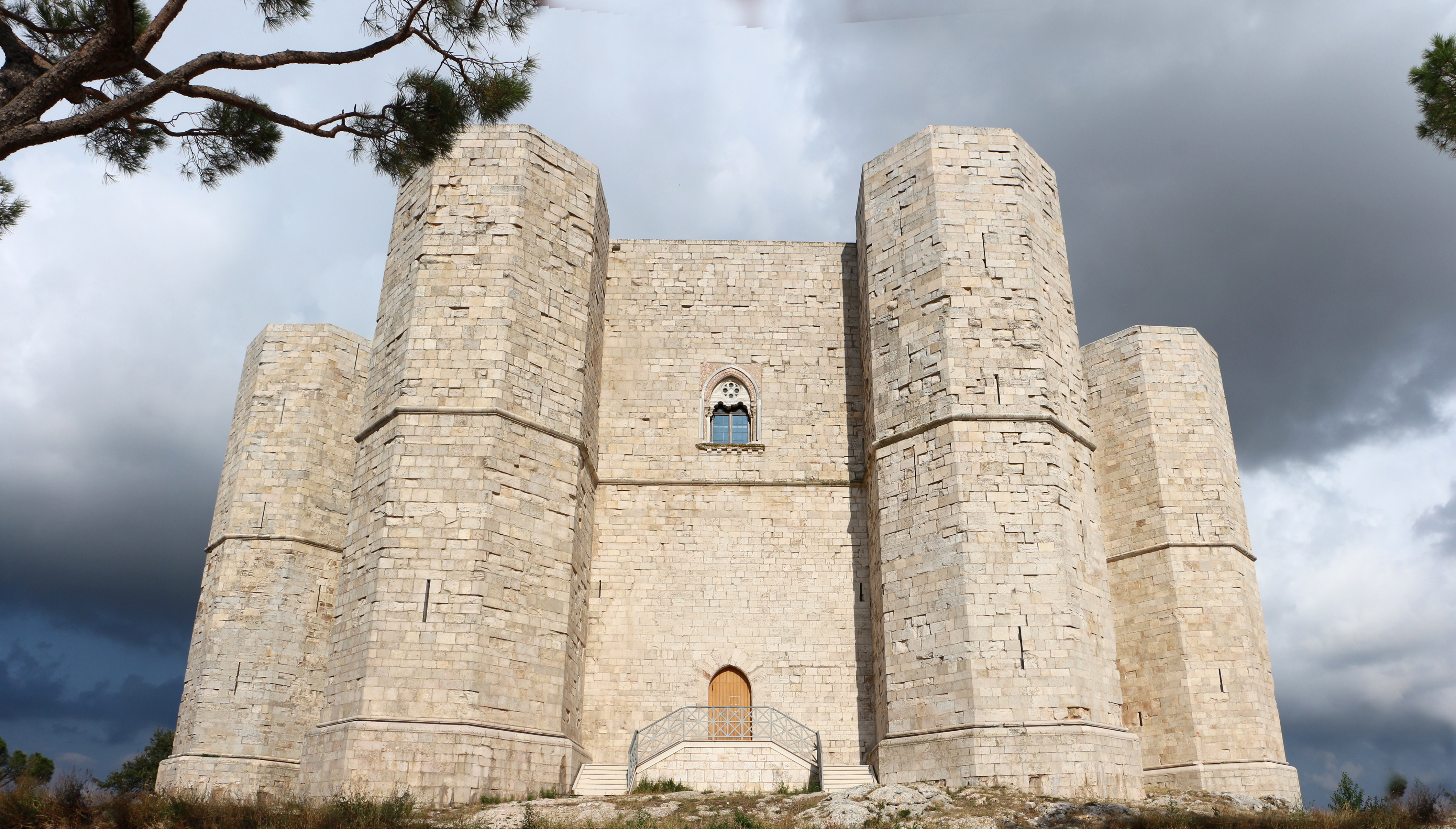 Castel del Monte